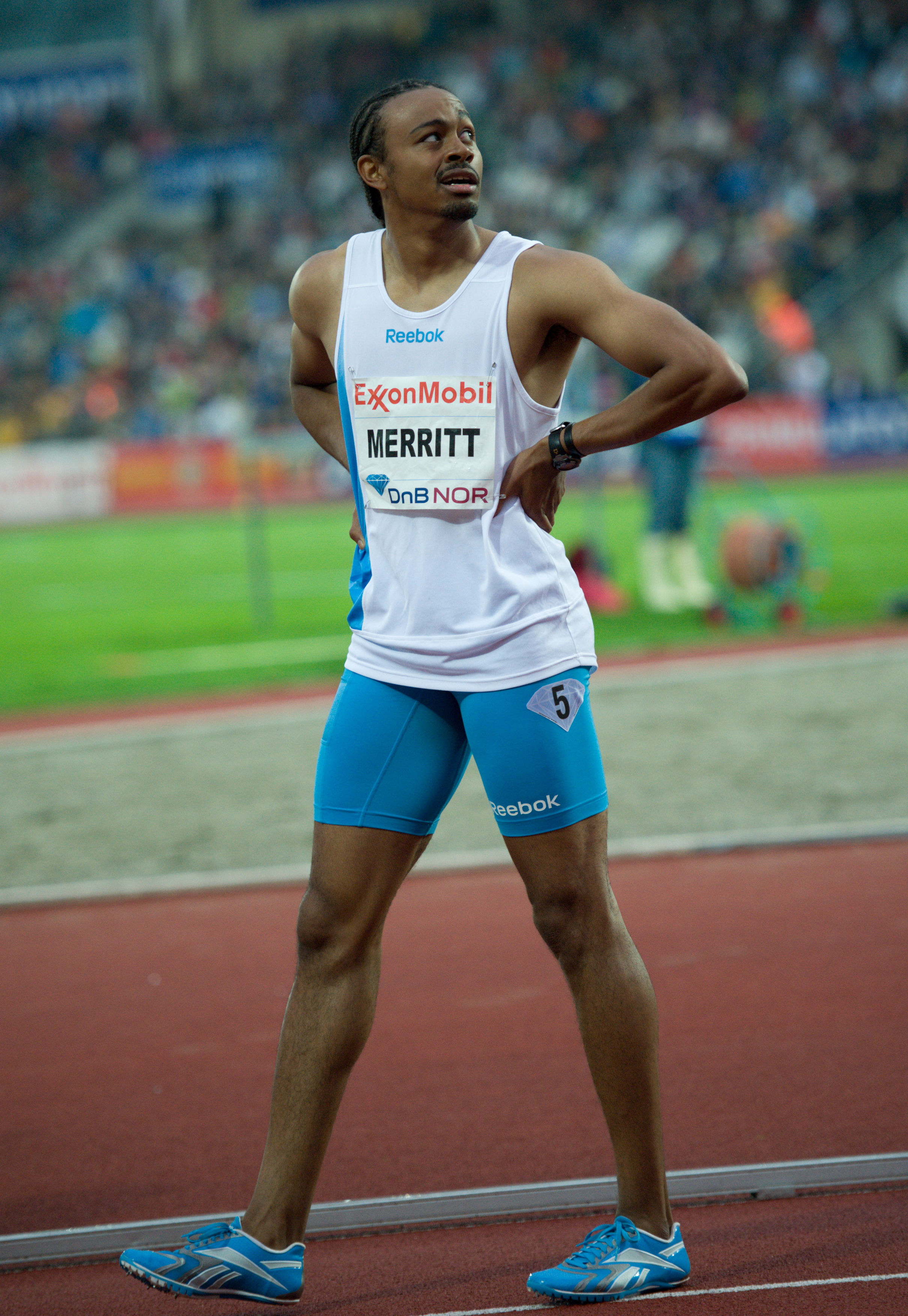 Aries Merrit winning 110 m hurdles at bislett games 2011